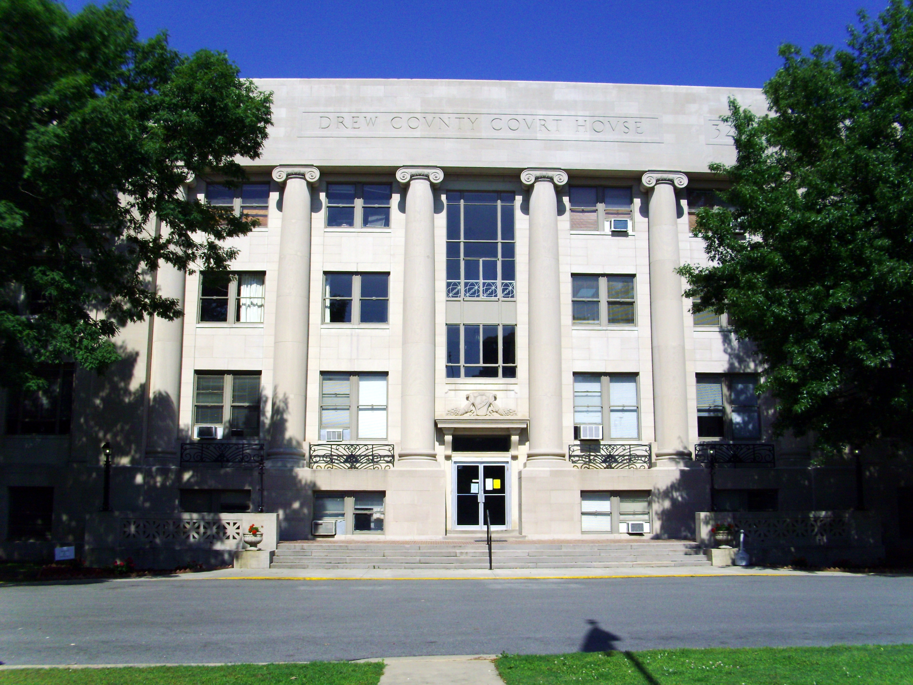 Facade